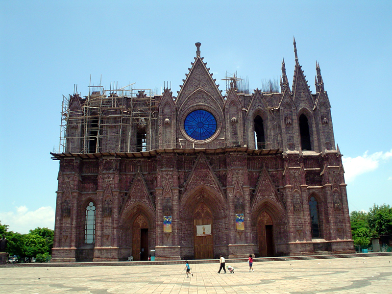 Imagen del santuario en el año 2004